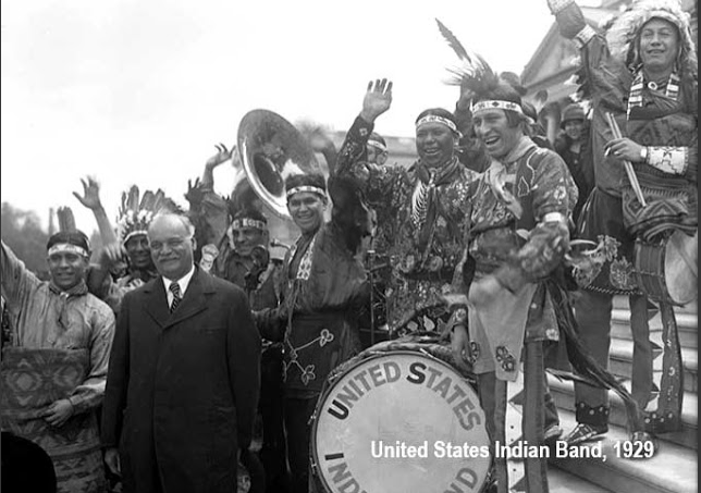 U.S. Indian Band, 1929. "The United States Indian Band representing 13 tribes, who are making a tour of the United States called at the Capitol to serenade V.P. Curtis and Sen W.B. Pine of Oklahoma today." This image has been cropped and enhanced. Other information No.